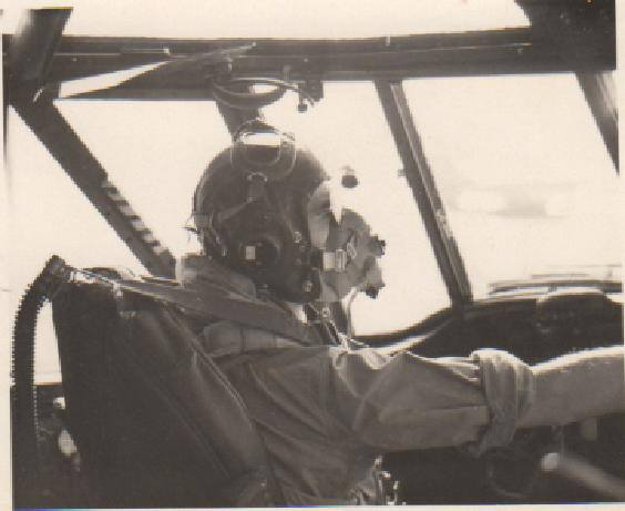 Polish pilot Adam Rymarz flying a Handley-Page Halifax in the Second World War